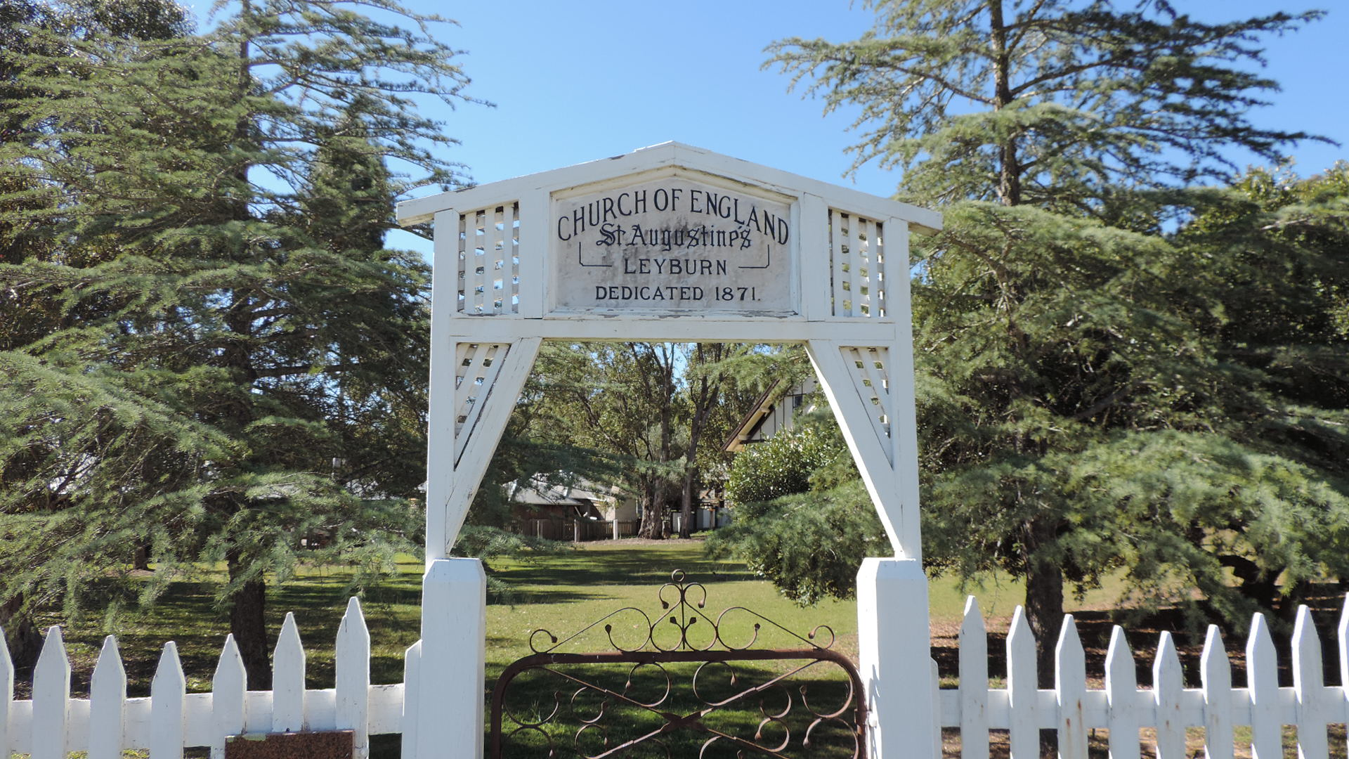 Front gate, St Augustines Anglican Church, Leyburn, 2015